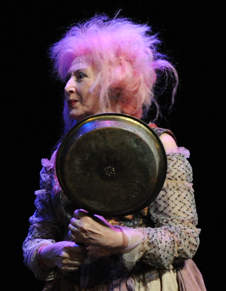 "The School for Wives" by Moliere in the Cameri Theater featuring Rami Barukh, Rosina Kambus and Ezra Dagan. Director: Udi Ben-Moshe.